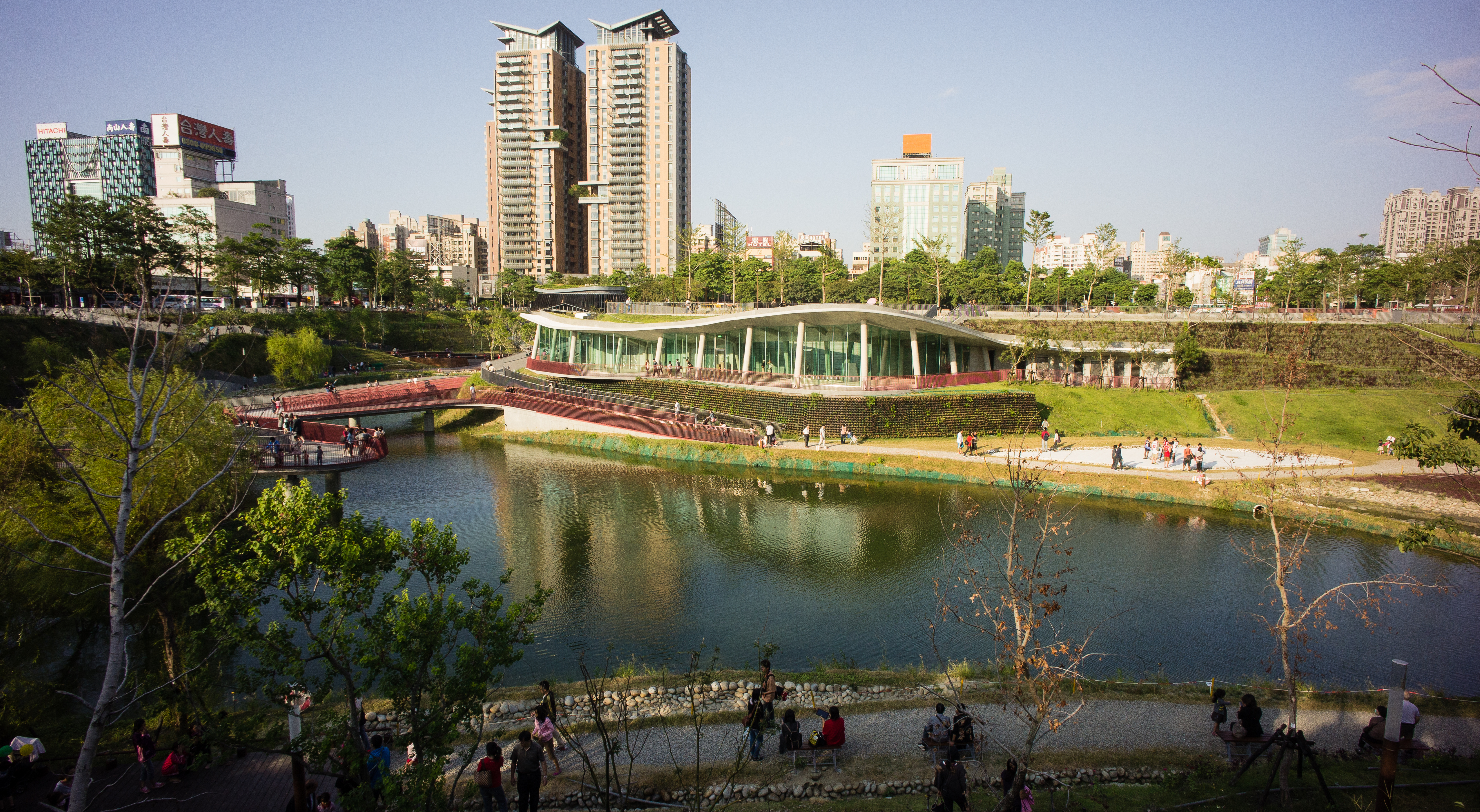 The Maple Garden is located on the corner of Taiwan Boulevard and Henan Road in Taichung City.